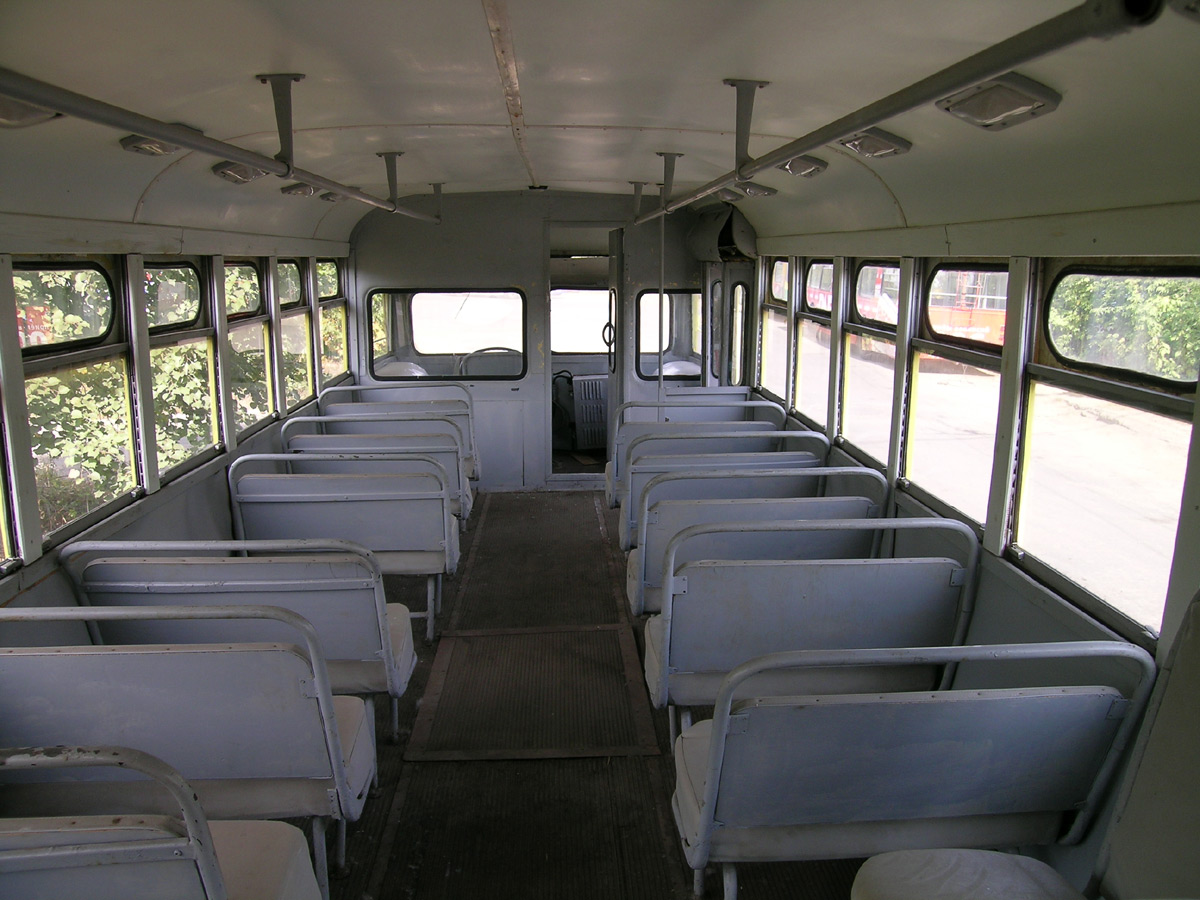 The view to forward end of the passenger compartment of MTB-82 trolleybus